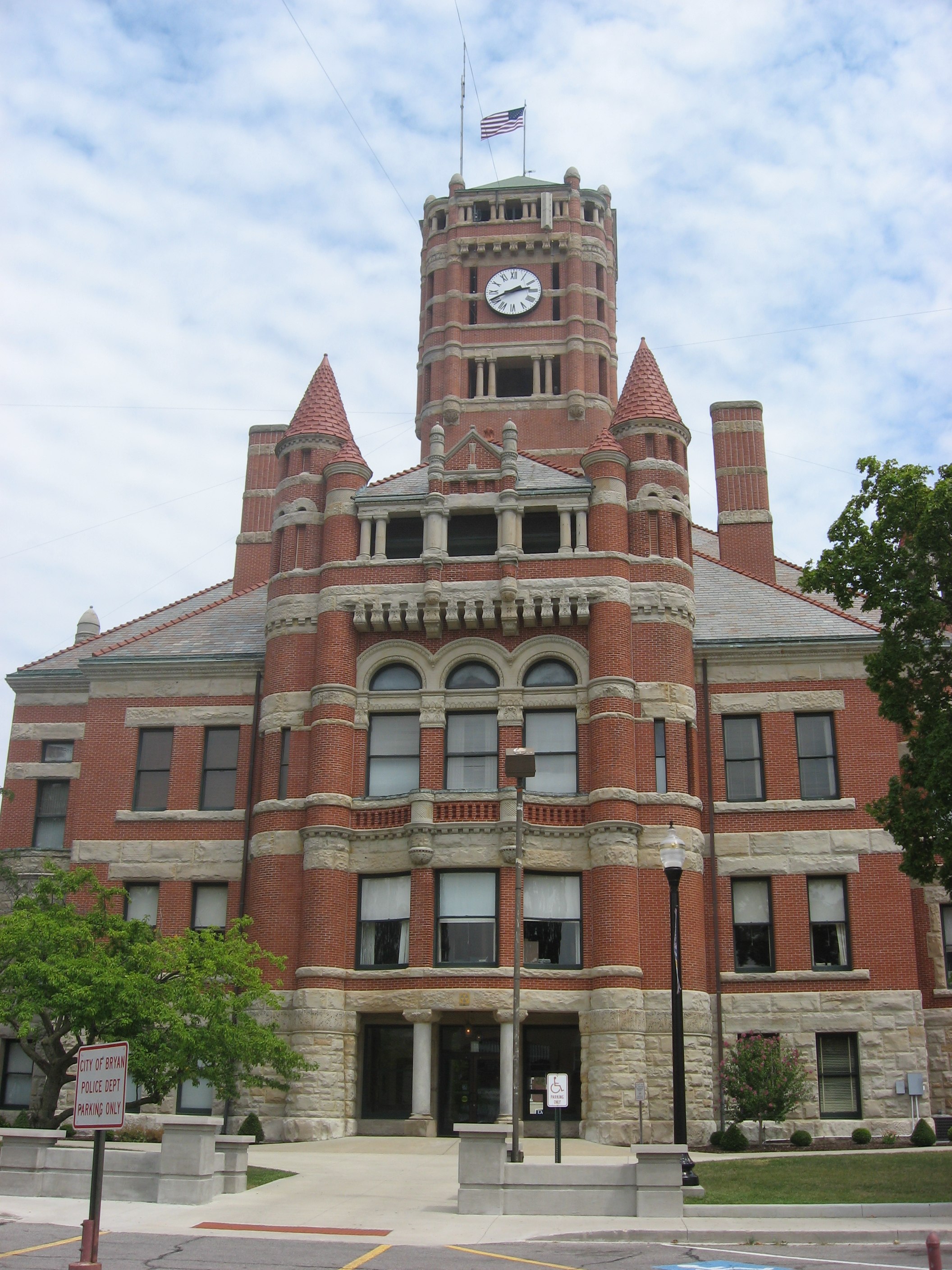 Western side of the Williams County Courthouse, located at the intersection of Main (U.S. Route 127 and State Route 15) and High (State Routes 2 and 34) at the center of Bryan, Ohio, United States. Built in 1890, it is listed on the National Register of Historic Places, and it is part of the Register-listed Bryan Downtown Historic District.